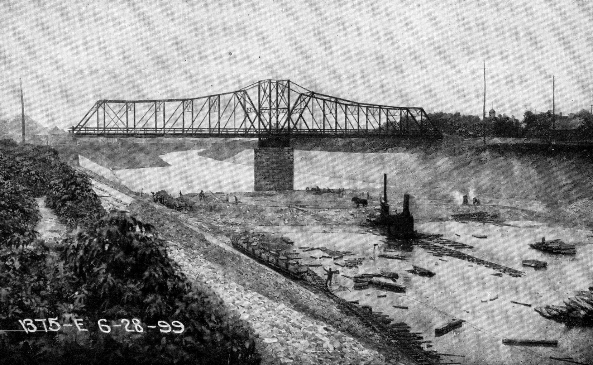 Chicago Sanitary and Ship Canal (at the time named the Chicago Drainage Canal) being built. This image has been extracted, rotated, retouched and resaved from The New Student's Reference Work.